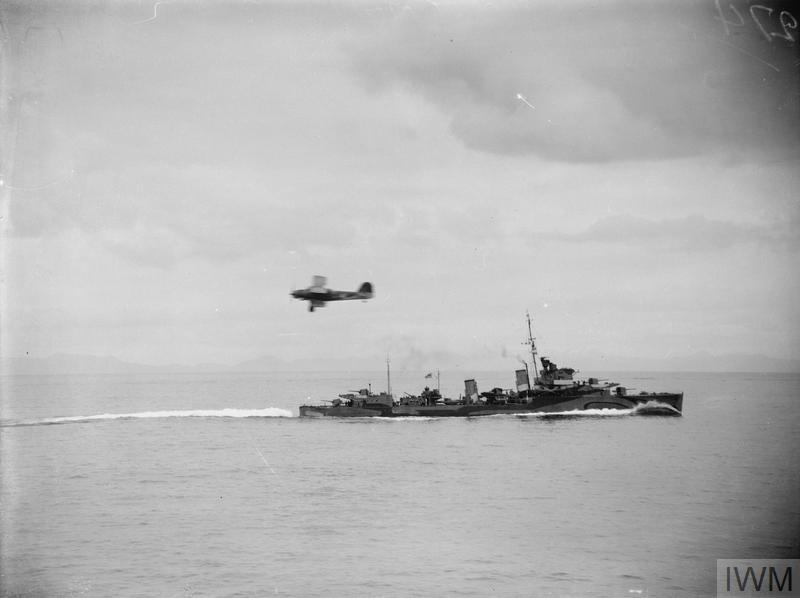 One of HMS Victorious' Fairey Albacore torpedo bombers overflies the flotilla leader HMS Faulknor